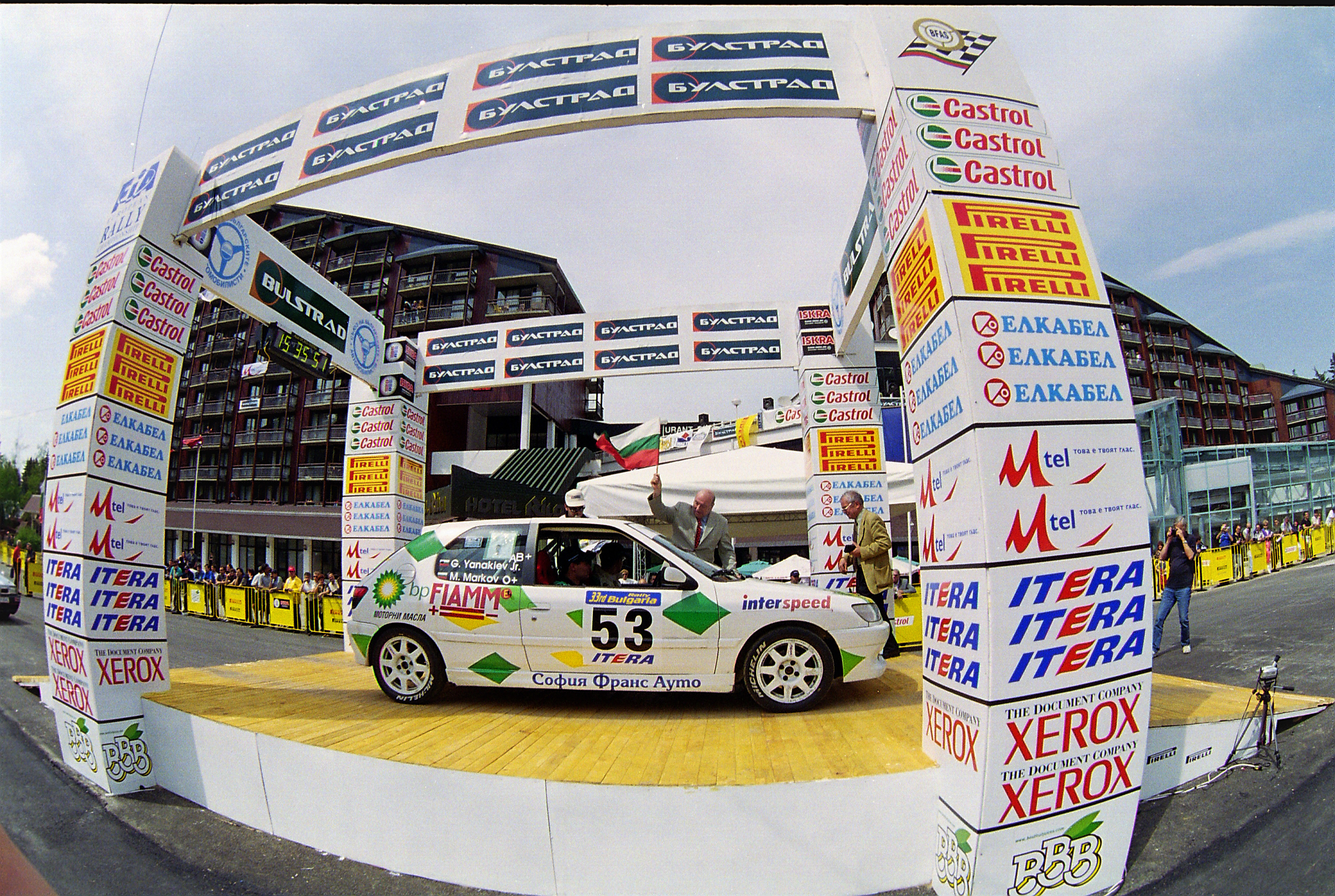 The bulgarian driver Martin Markov on 33rd Rally Bulgaria in 2002.